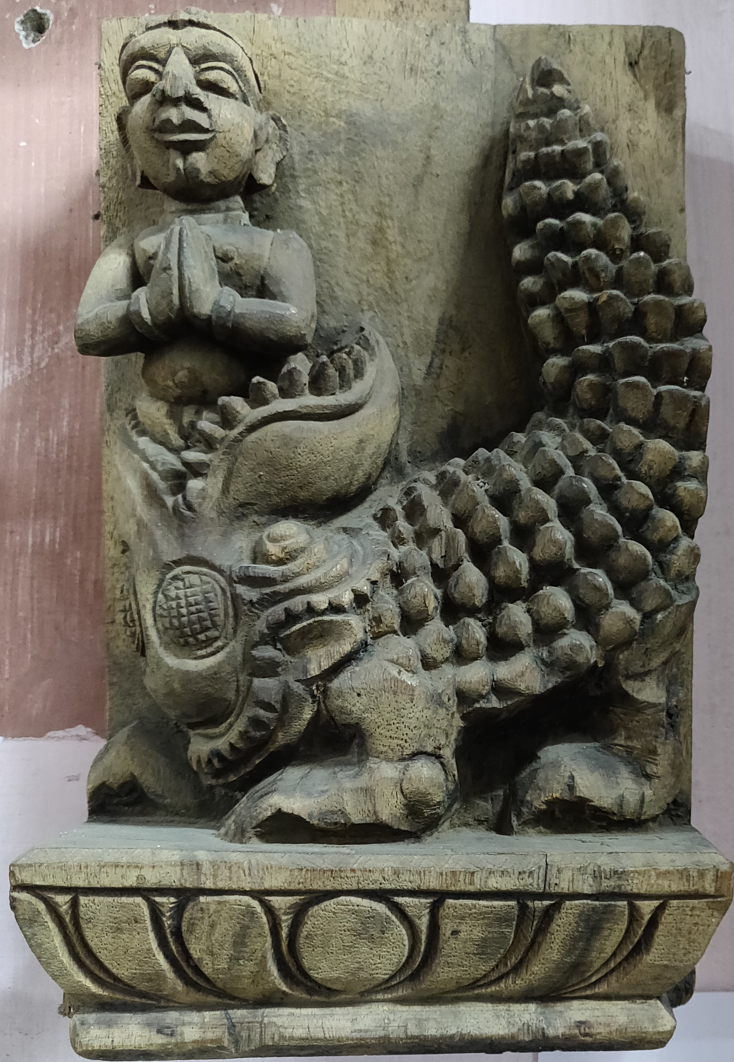 Exhibits in Government Museum, Coimbatore.